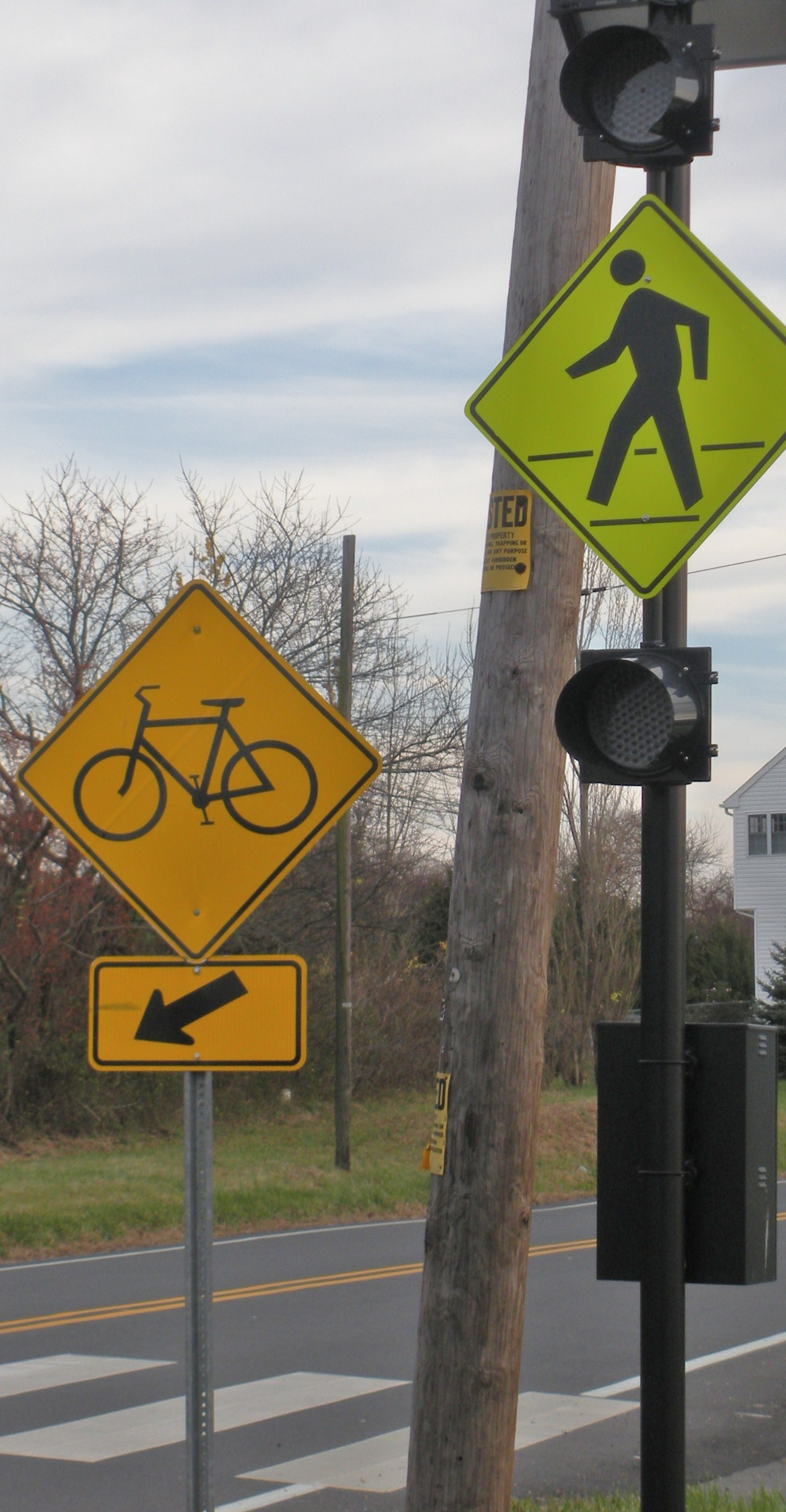 HAWK-like crossing light on Edgar Felix trail